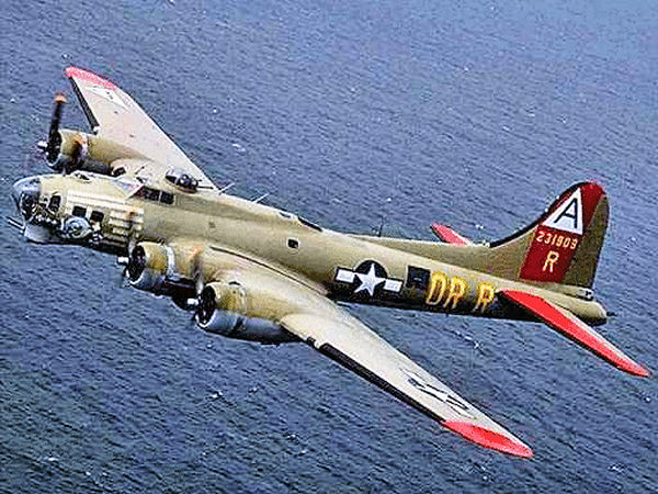 B-17G AAF Ser. No. 44-83575 restored to military configuration and flying as AAF Ser. No. 42-31909, a B-17G-30-BO Flying Fortress named Nine-O-Nine of the 323rd Bomb Squadron, one of two longest-serving B-17's of the 91st BG; the original "Nine-O-Nine" was scrapped after World War II in Kingman, Arizona. B-17G 44-83575 was built too late for the war and was for a time used as a civilian fire bomber. On October 2, 2019, a Boeing B-17 Flying Fortress owned by the Collings Foundation crashed at Bradley International Airport, Windsor Locks, Connecticut, United States. Seven of the thirteen people on board were killed, and the other six, as well as one person on the ground, were injured. The aircraft was destroyed by fire, with only the tail and a portion of one wing remaining.(Further information)